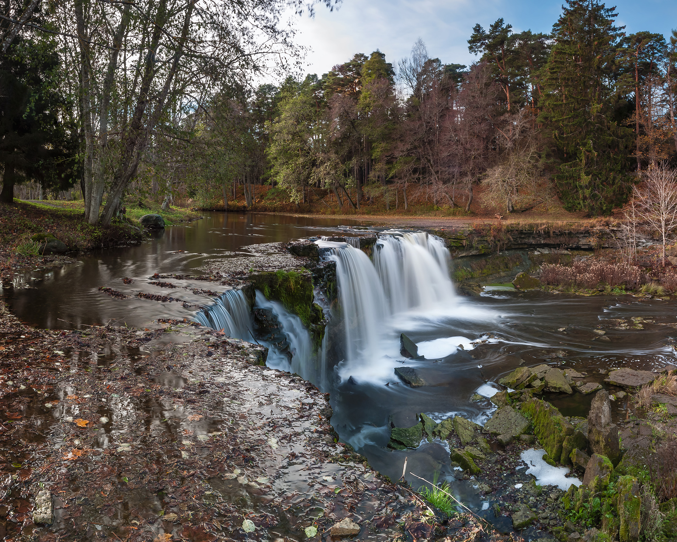 Keila waterfall. Keila-Joa manor park, Keila Parish, Harju County, Estonia.